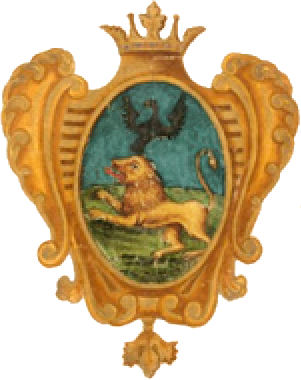 Belgorod, coat of arms (1730)